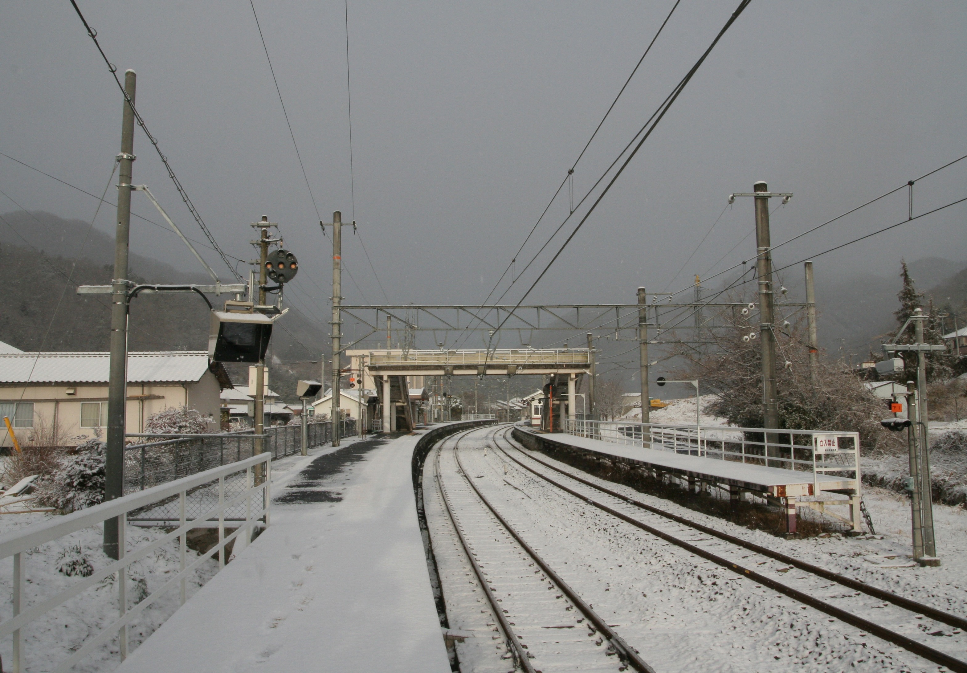 West Japan Railway Hakubi Line bitchū-kawamo Station enclosure